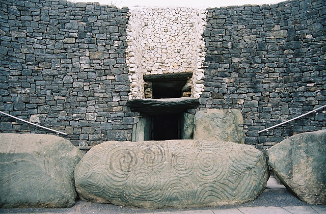 Newgrange, Neolithic Passagem Tomb - Ireland